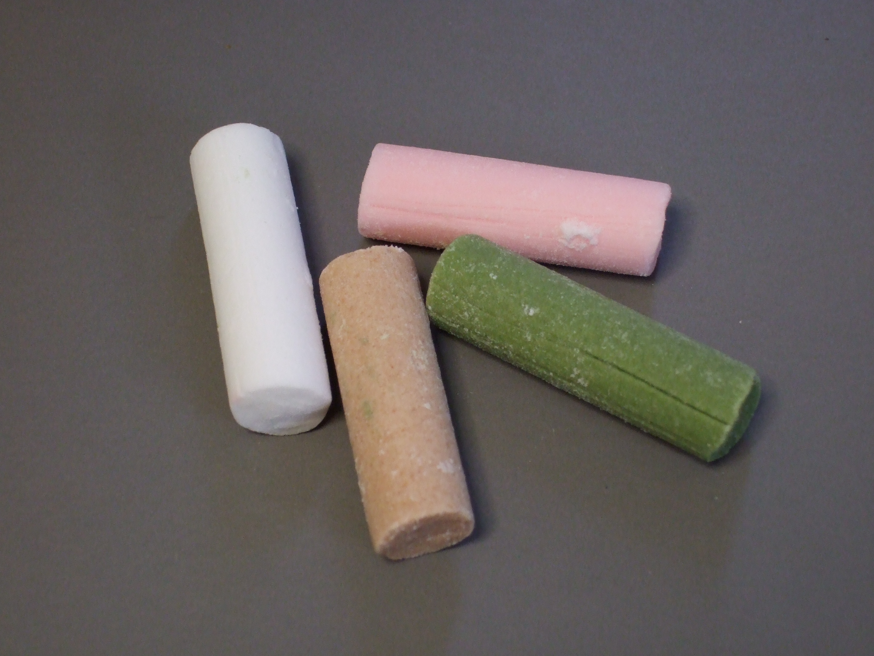 Hakka ame(candy), Length is about 30mm. Photo taken in Tokyo Japan.